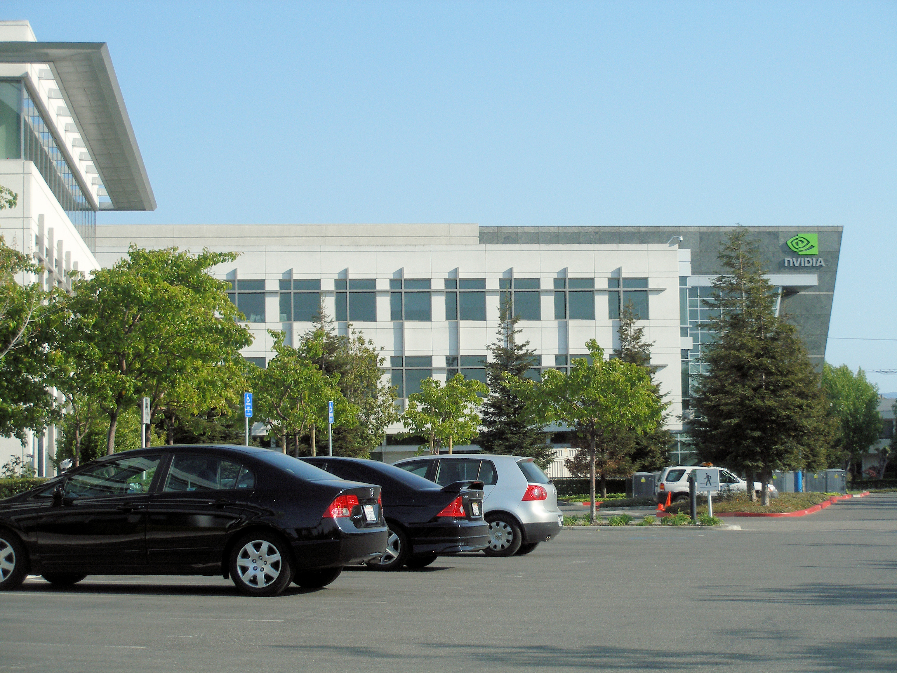 Nvidia headquarters on San Tomas Expressway in Santa Clara. Photographed on April 19, 2008 by user Coolcaesar.